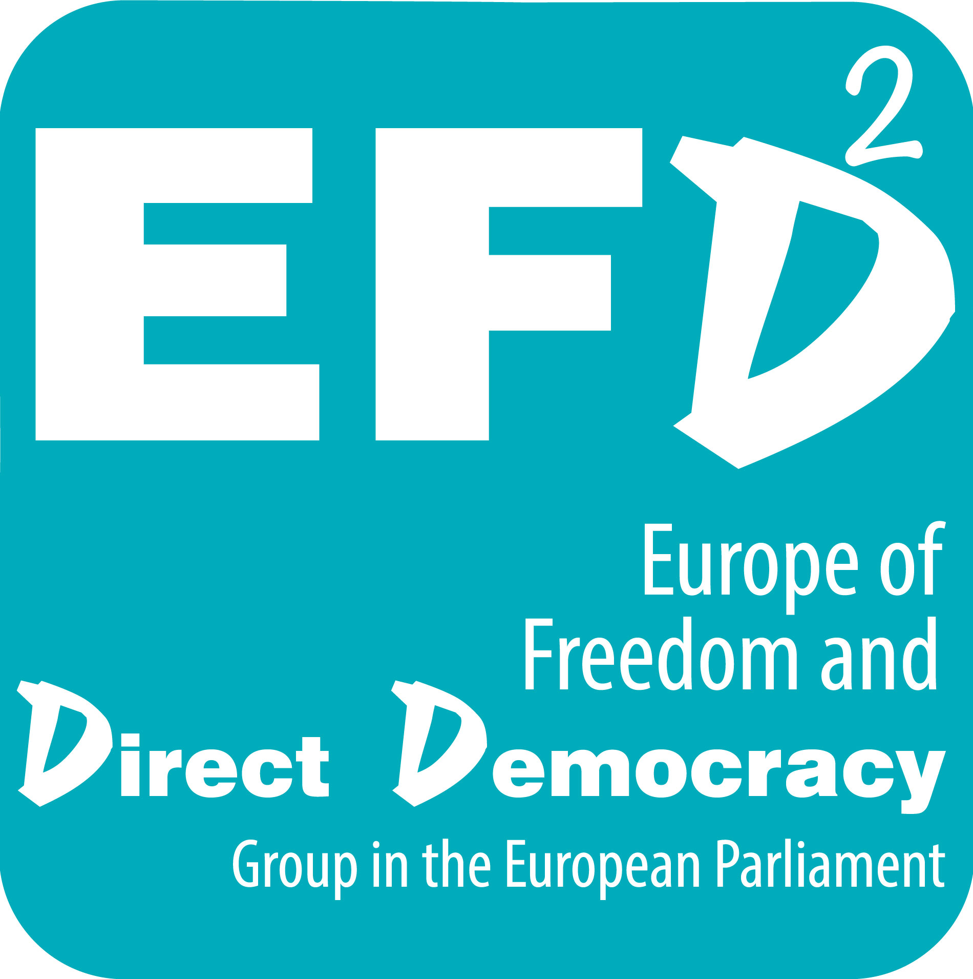 EFDD logo